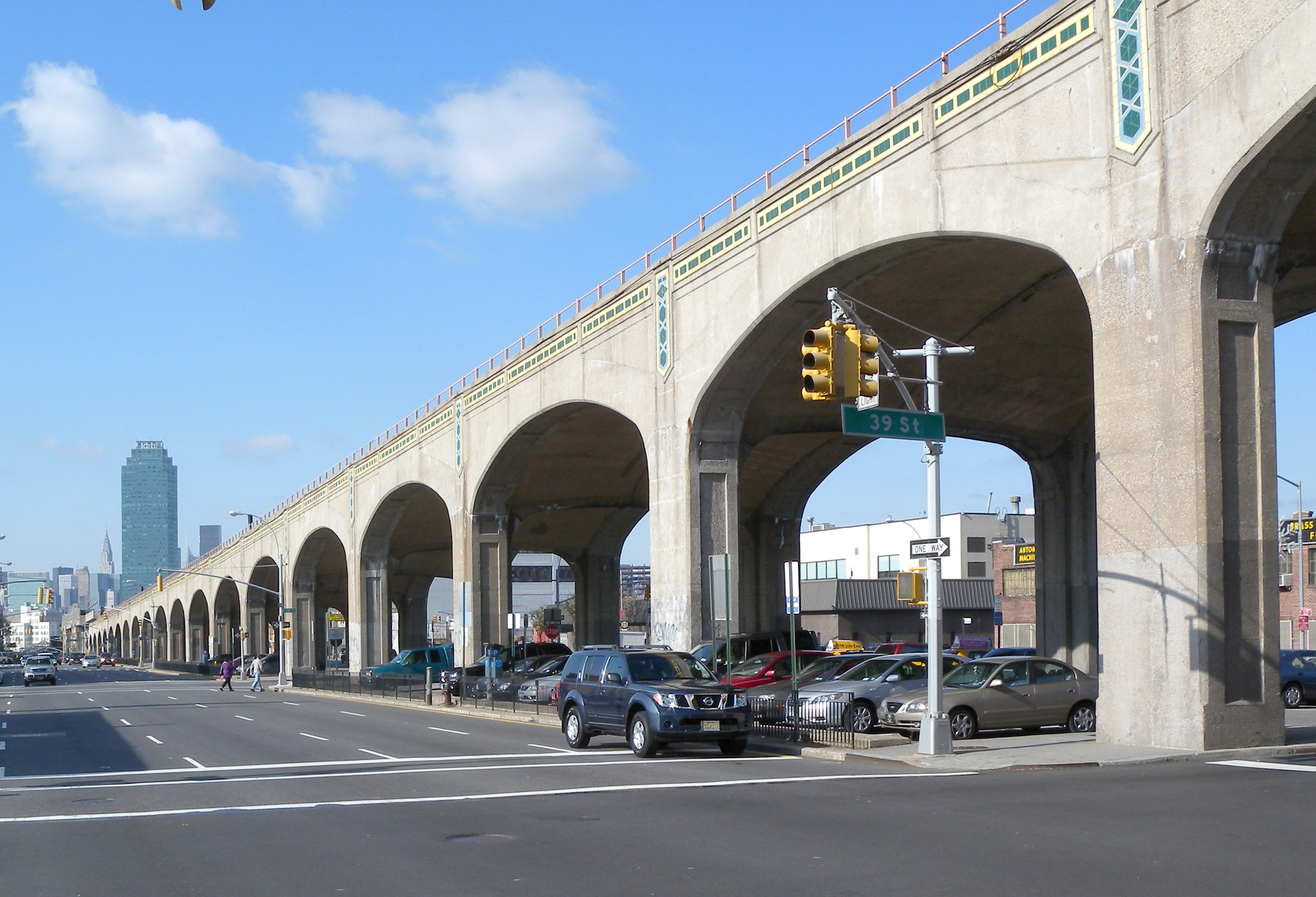 Looking west along Queens Boulevard viaduct of IRT Flushing Line from 39th Street on a sunny midday.